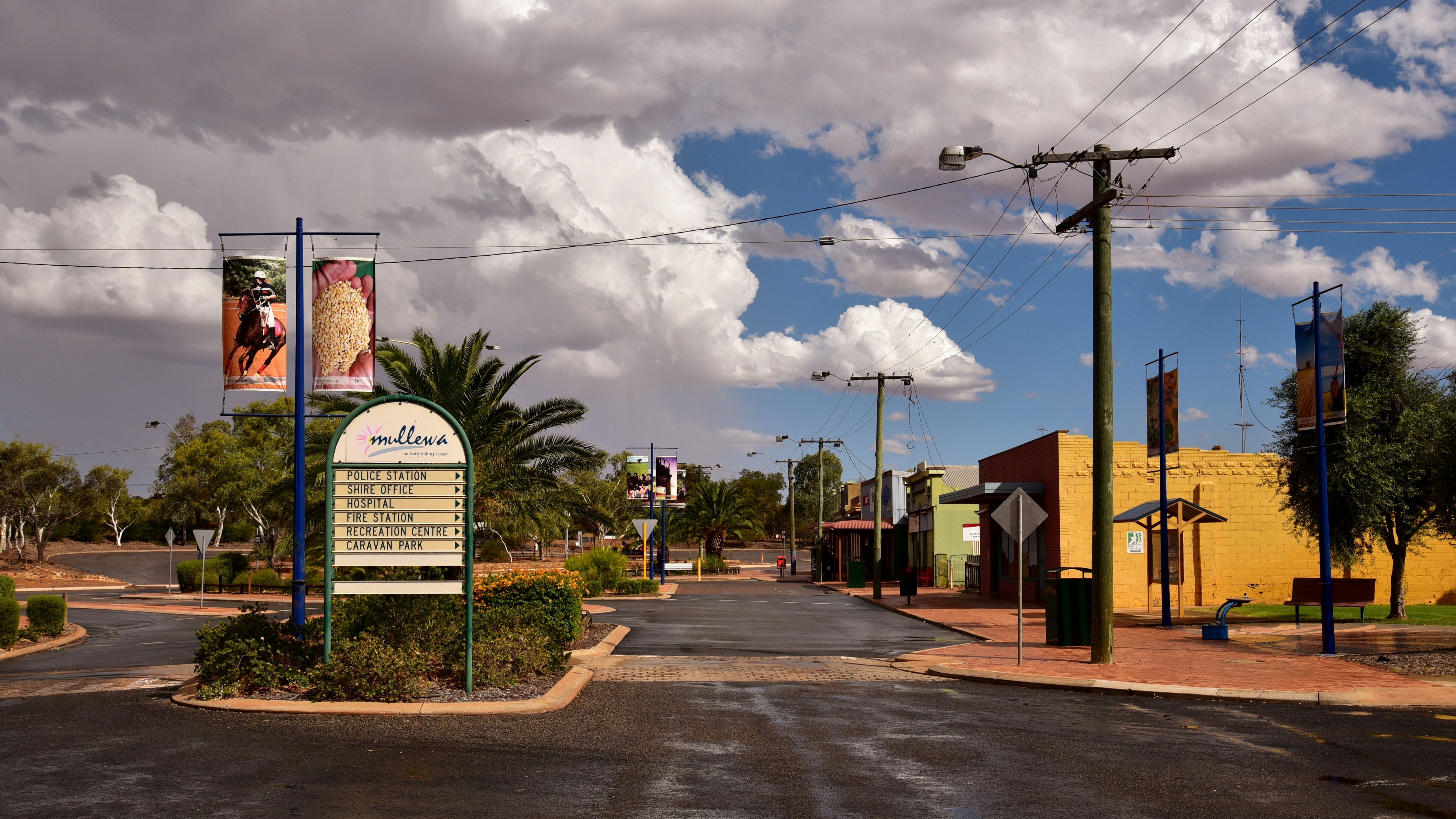 View of Jose Street, Mullewa, Western Australia